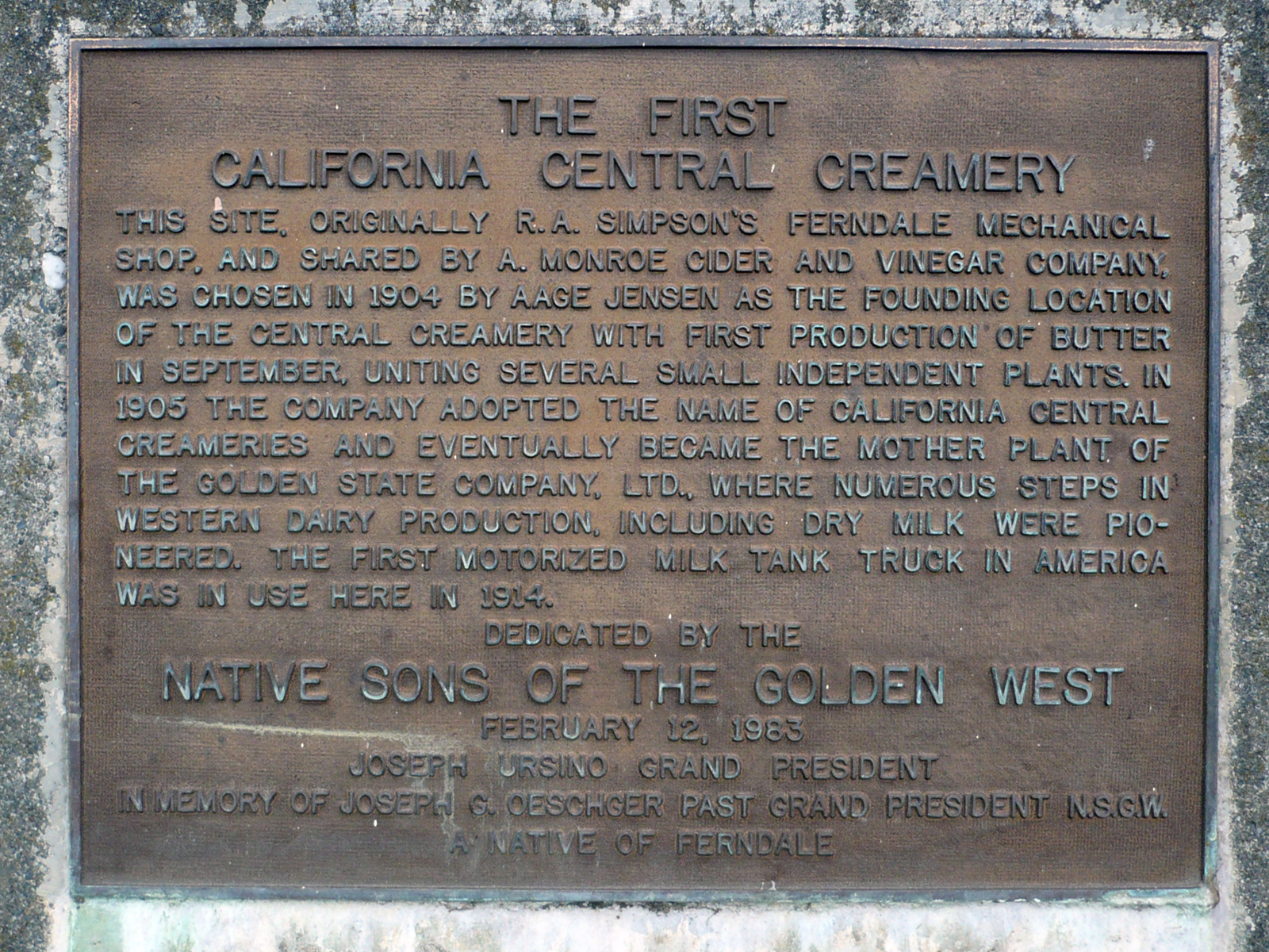 Bronze plaque on concrete base commemorating building as location of "The First California Central Creamery. This site, originally R.A. Simpson's Ferndale Mechanical Shop, and shared by A. Monroe Cider and Vinegar Company, was chosen in 1904 by Aage Jensen as the founding location of the Central Creamery with first production of butter in September, uniting several small independent plants. In 1905 the company adopted the name of California Central Creameries and eventually became the mother plant of the Golden State Company, Ltd., where numerous steps in western dairy production, including dry milk were pioneered. The first motorized milk tank truck in America was in use here in 1914. Dedicated by the Native Sons of the Golden West. February 12, 1983 Joseph Ursino Grand President. In memory of Joseph G. Oeschger Past Grand President N.S.G.S. a native of Ferndale."